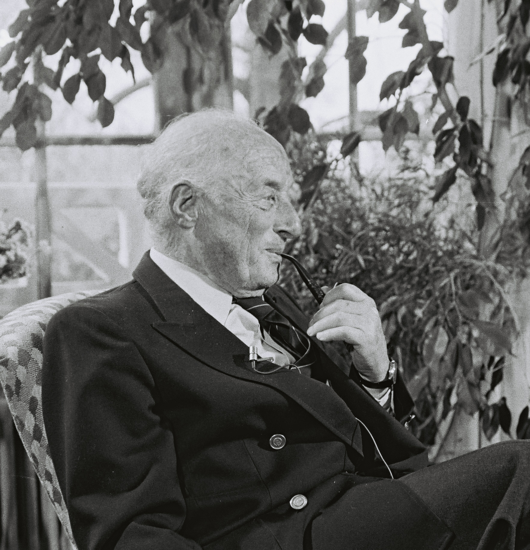 Étienne Hirsch, 1983